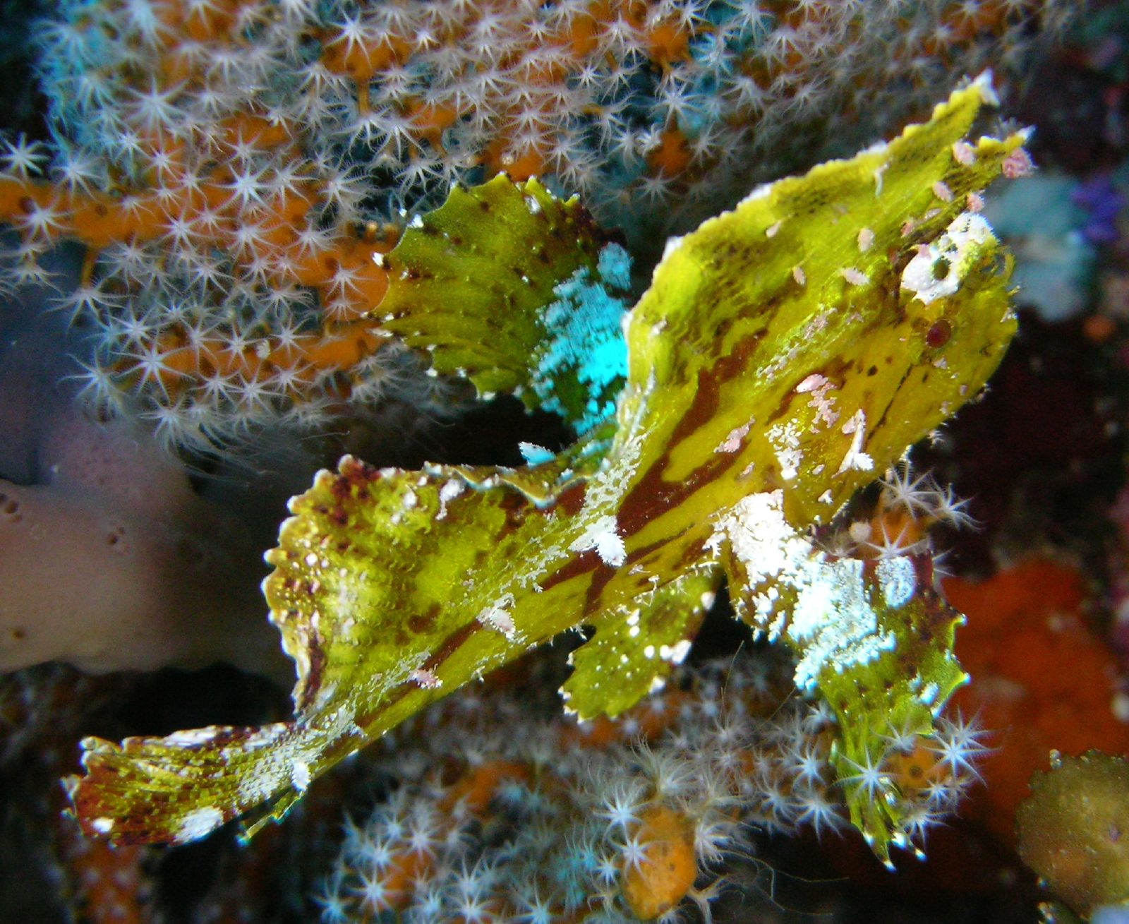 Leaf Scorpionfish (Taenianotus triacanthus)